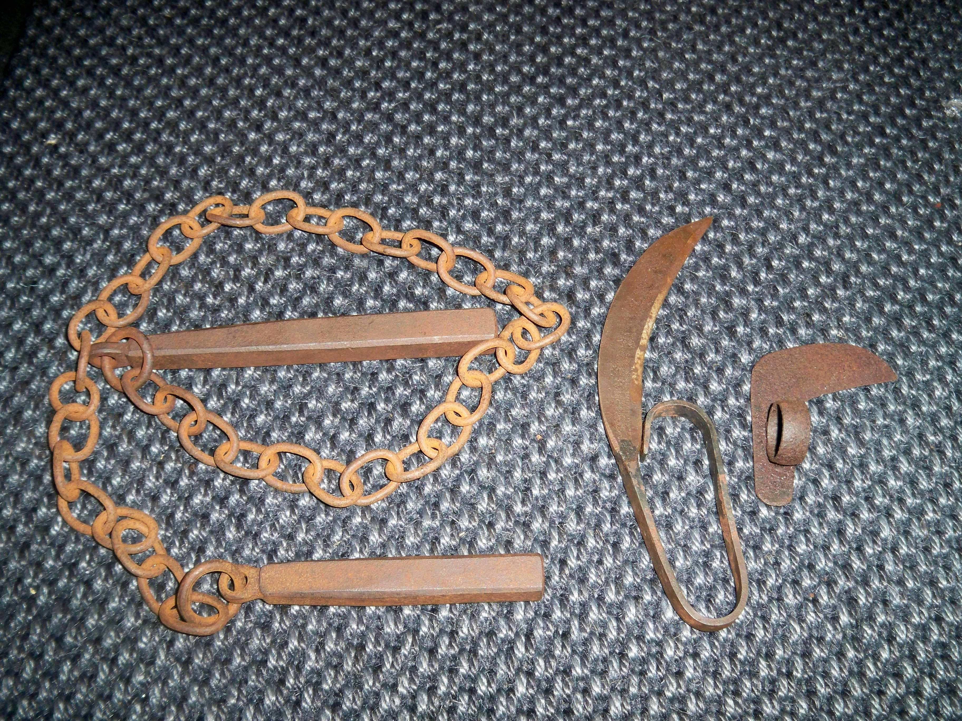 Japanese (ninja type) concealable weapons